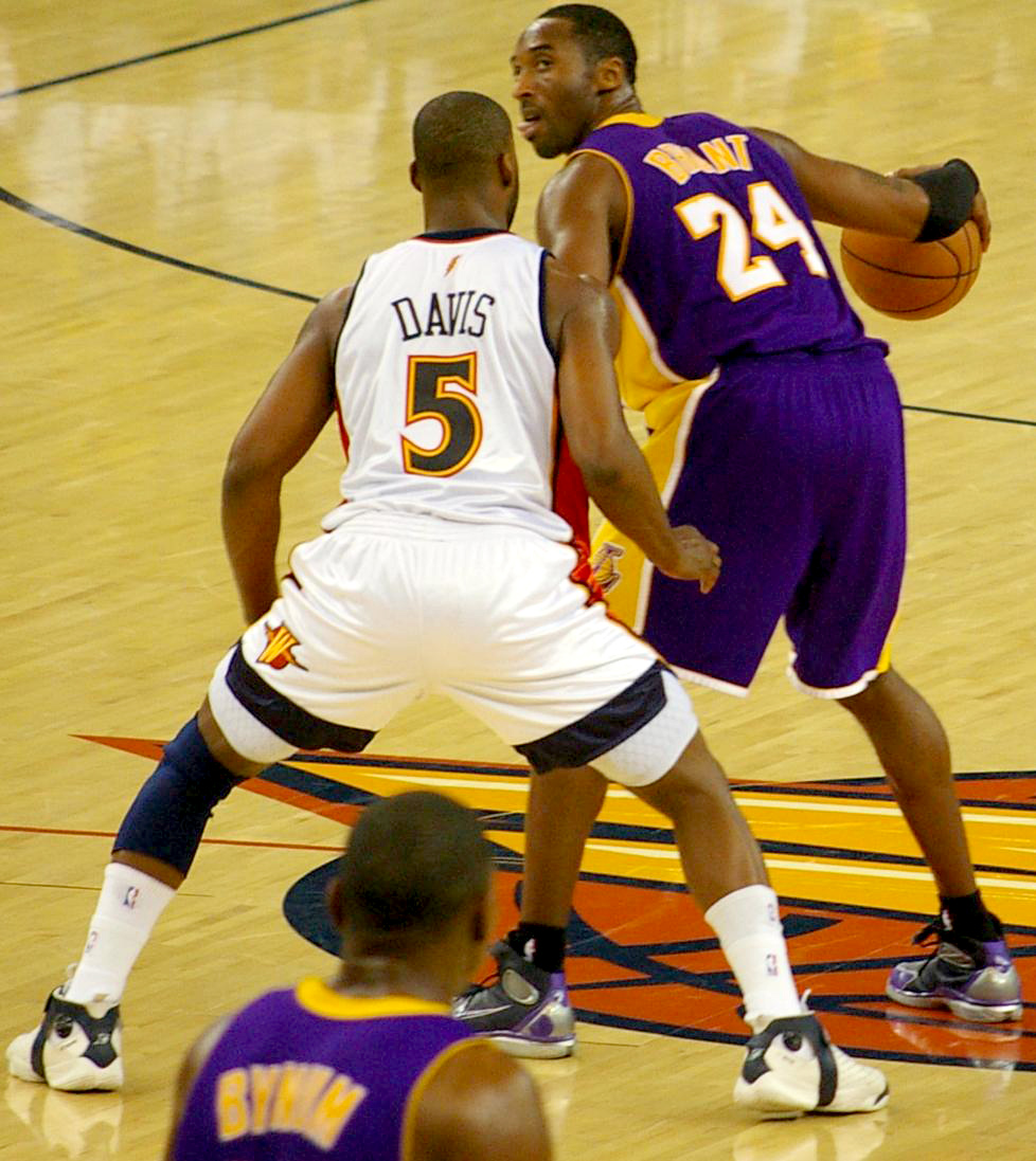 Kobe Bryant being defended by Baron Davis